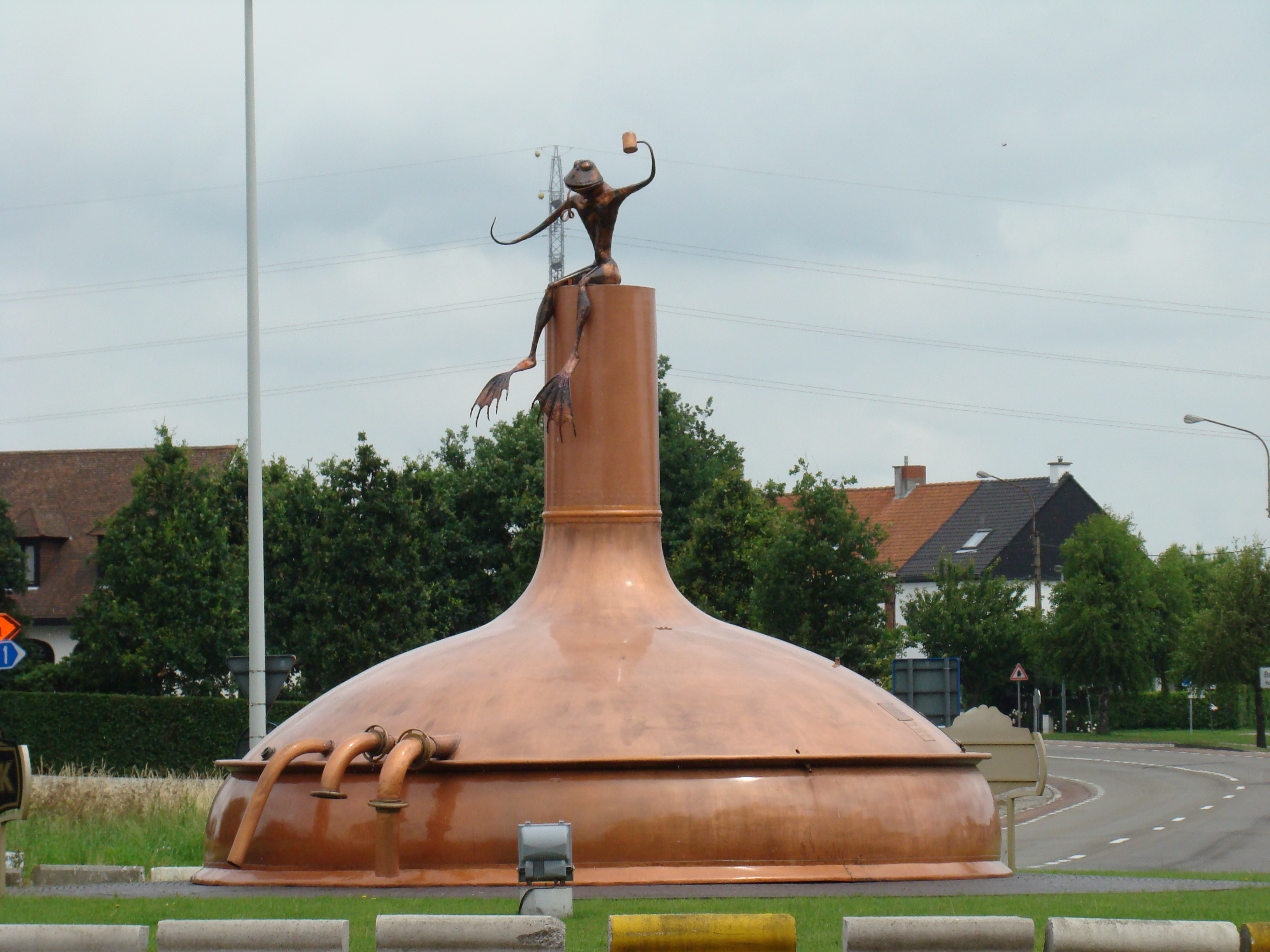 Bavikhove (Harelbeke) (West Flanders, Belgium)